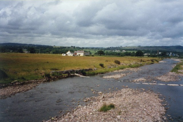 Afon Sawdde, Llangadog. This is taken from the bridge over the river, near Felindre. The land is Carreg-Sawdde Common. The stepping stones are almost submerged although the river level is not high.